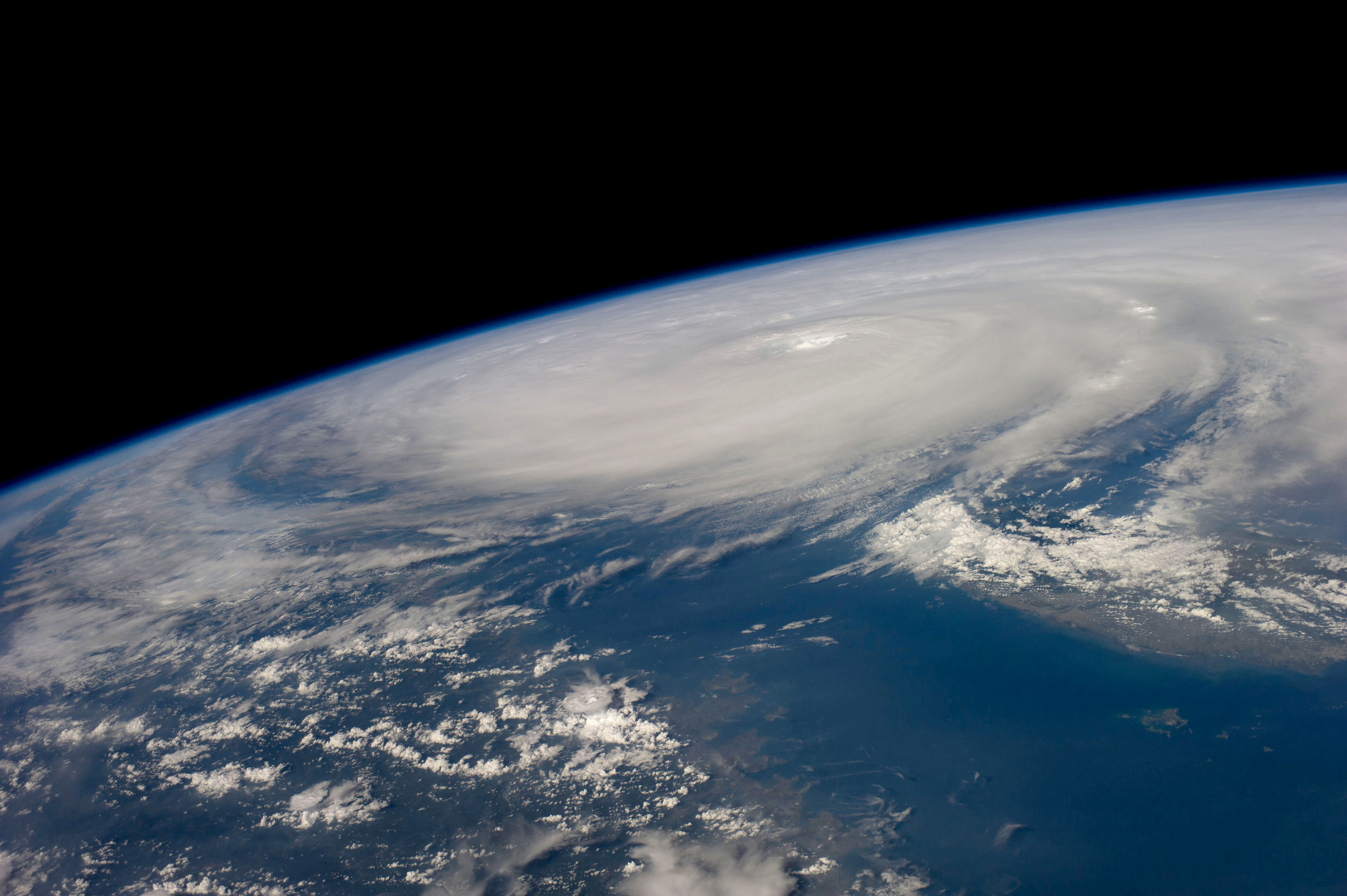 Super Typhoon Neoguri over Taiwan at 07:40 (GMT), July 8th.